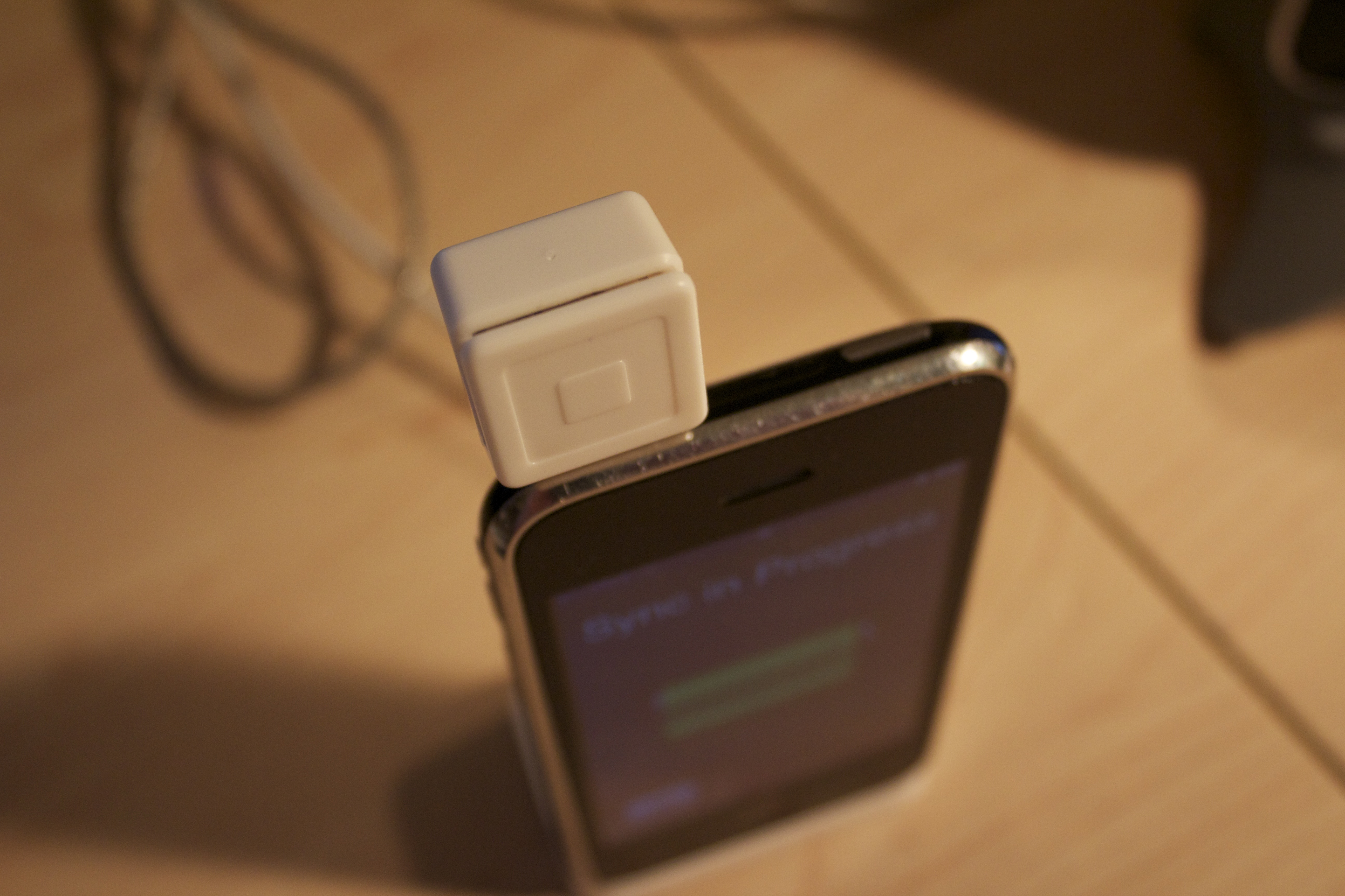 Square Reader + iPhone 3G